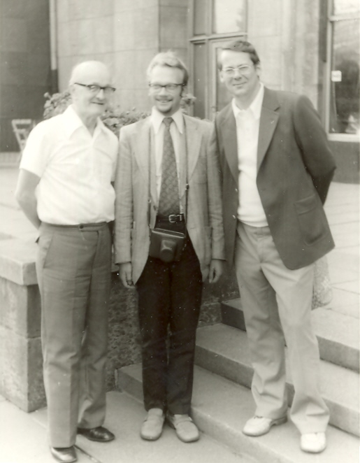 Wolfgang Weber, Friedrich Chlubna, Manfred Zucker chess composers in Dresden